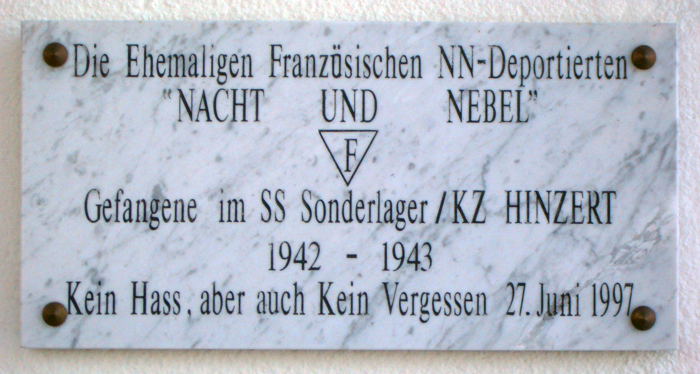 SS-Sonderlager/KZ Hinzert, commemorative plaque of the French victims